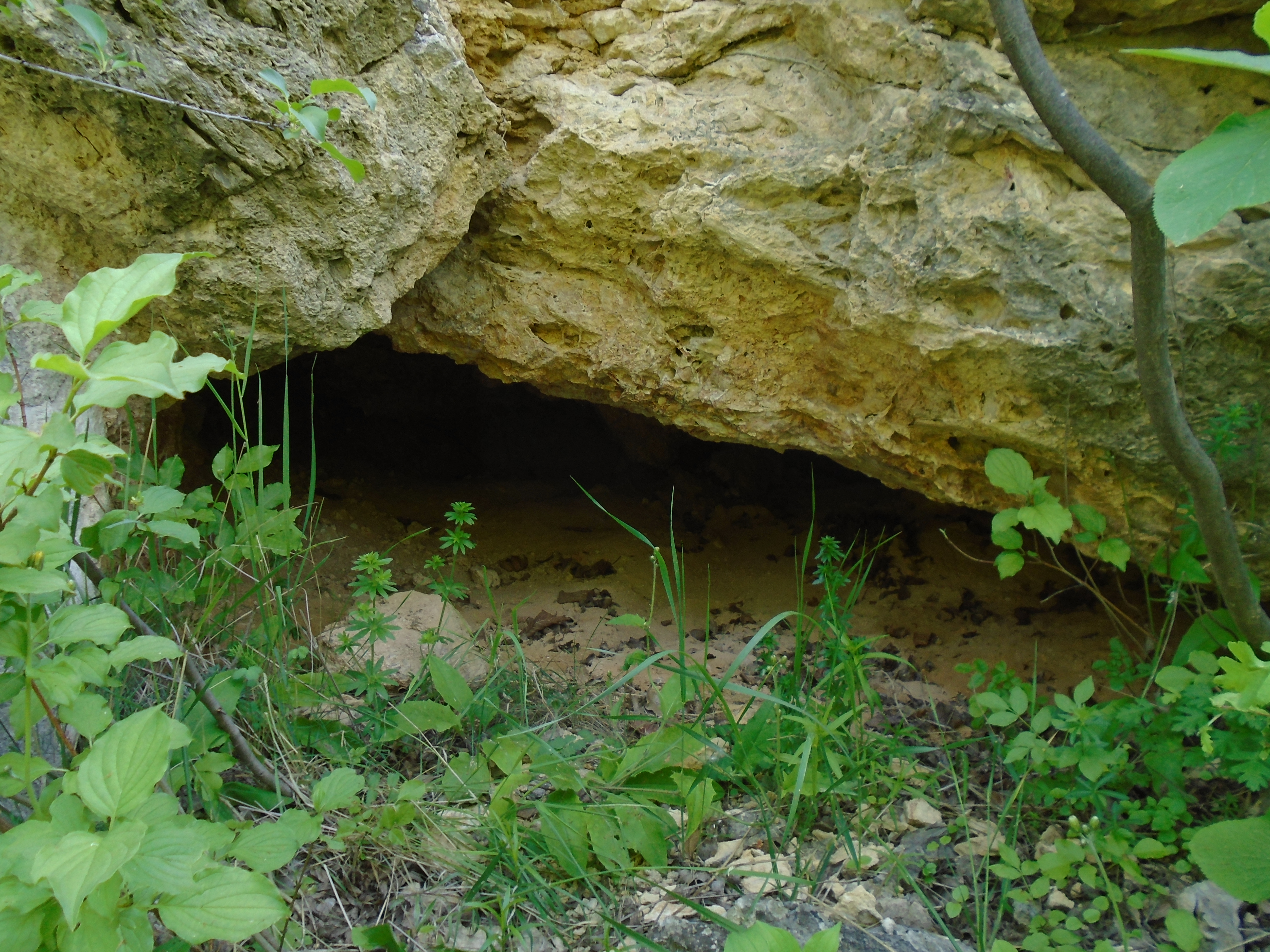 Entrance of Keleti quarry No 9 Cave.